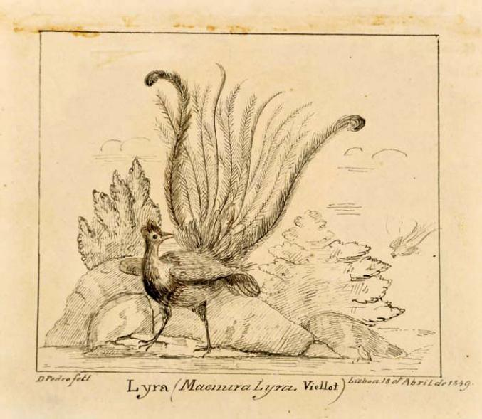 Drawing of a peacock by Peter V of Portugal. Nankin on paper; signed and dated "Lisbon, 18 April, 1849".